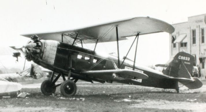 Stearman LT-1 Interstate Airlines NC8833 c.n 2003